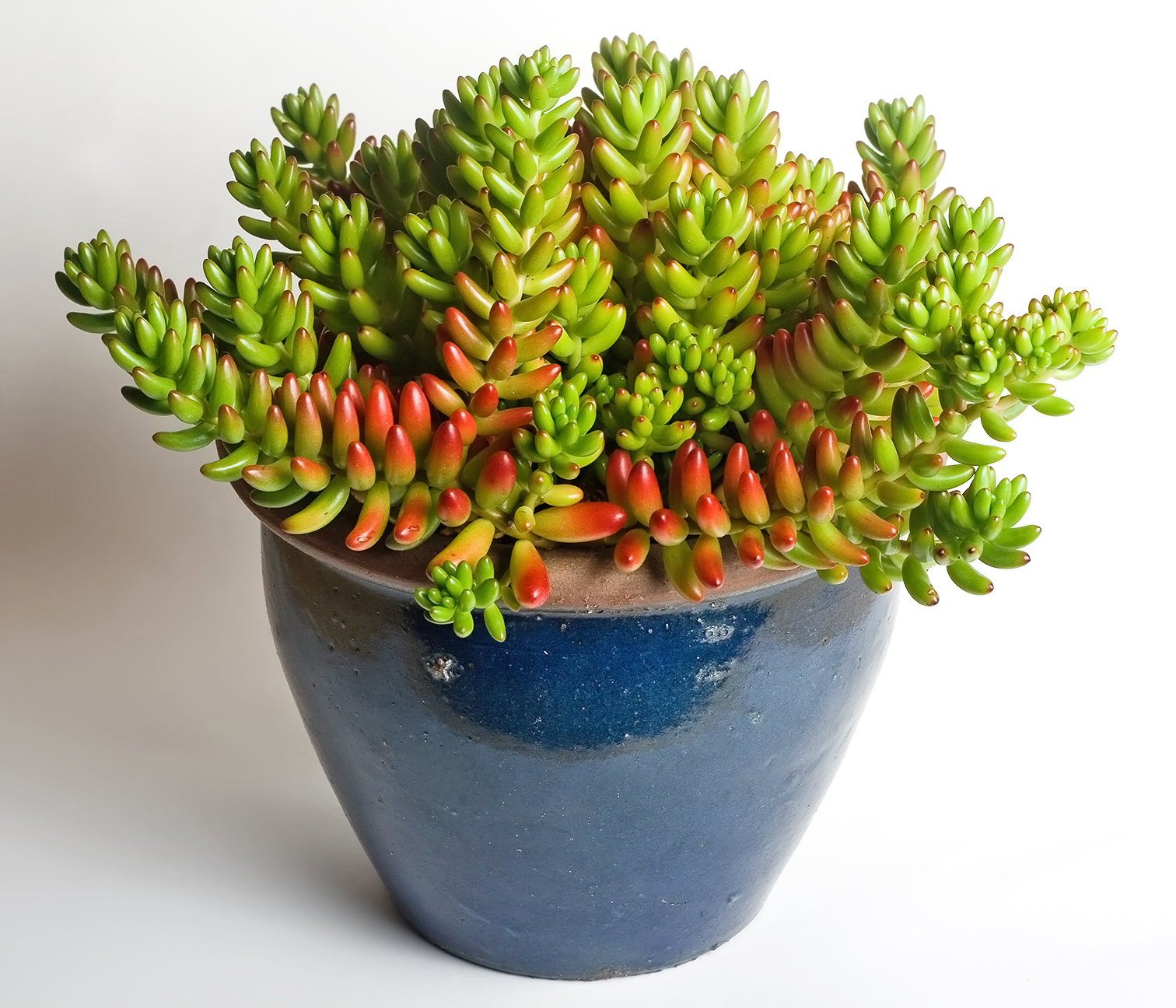 Jelly Bean Plant (Sedum × rubrotinctum). Camera data Camera Canon EOS 400D Lens Canon EF 50mm f1.8 Flash Shoot through umbrella right Focal length 50 mm Aperture f/11 Exposure time 1/200 s Sensivity ISO 100